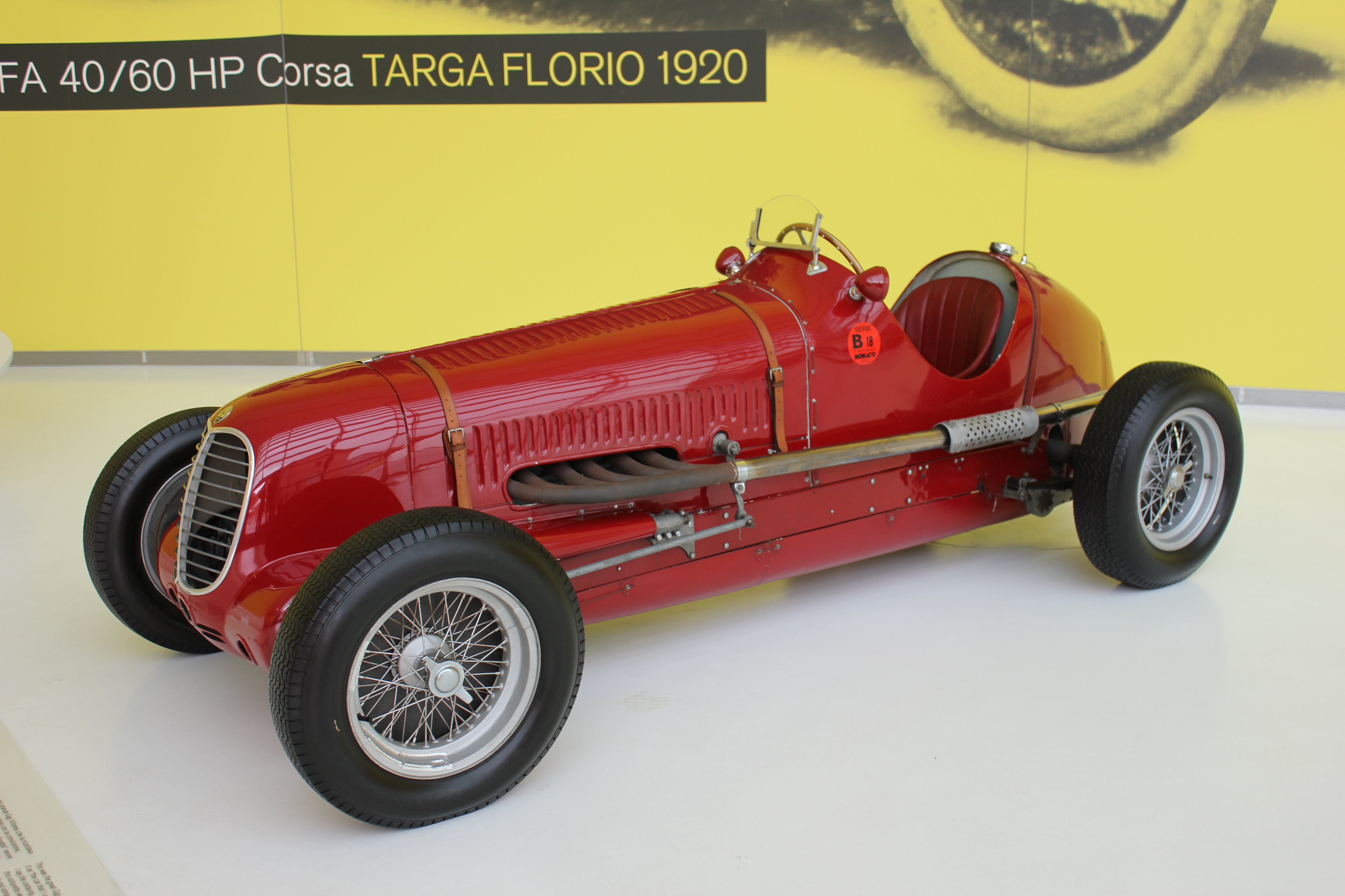 Maserati 6CM. "Maserati 100 - A Century of Pure Italian Luxury Sports Cars" exhibition at the Museo Enzo Ferrari, Modena, Italy.